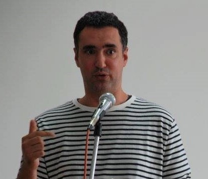 Slavcho Koviloski